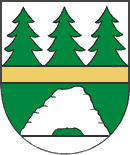 Coat of Arms of Gießübel